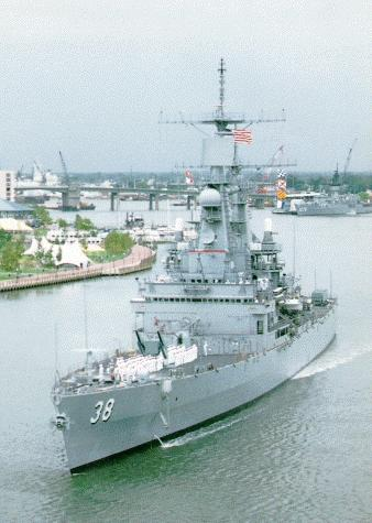 The U.S. Navy guided missile cruiser USS Virginia (CGN-38) leaving port. The photo was taken after her 1984-1985 refit.